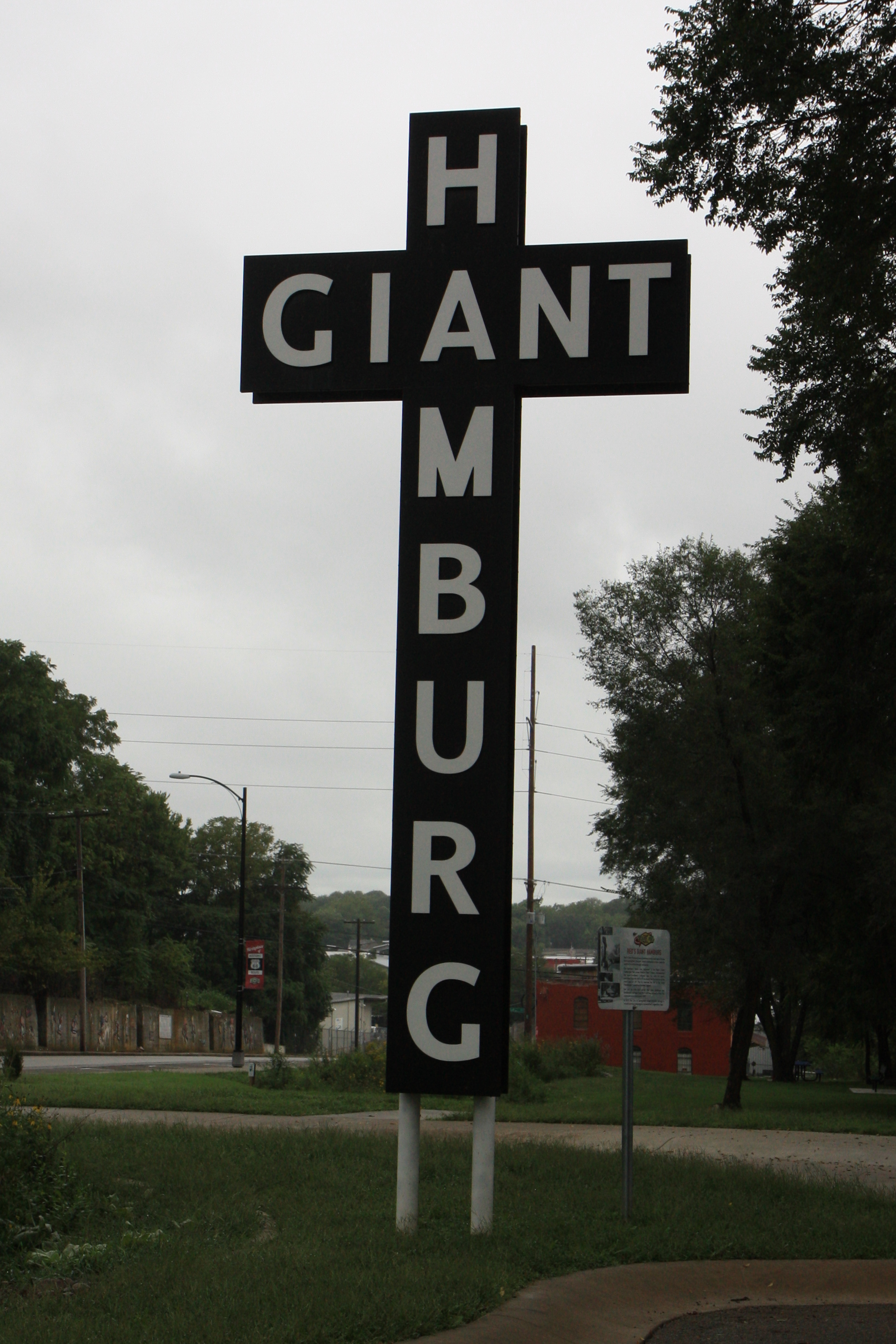 A 2013 reproduction of Red's Giant Hamburg sign along U.S. Route 66 in Springfield, MO